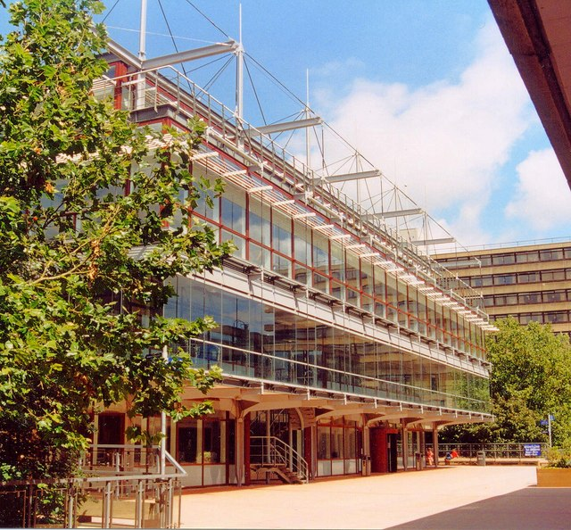 The Library, University of Bath With Norwood House in the background. Early morning at an Open University Summer School.